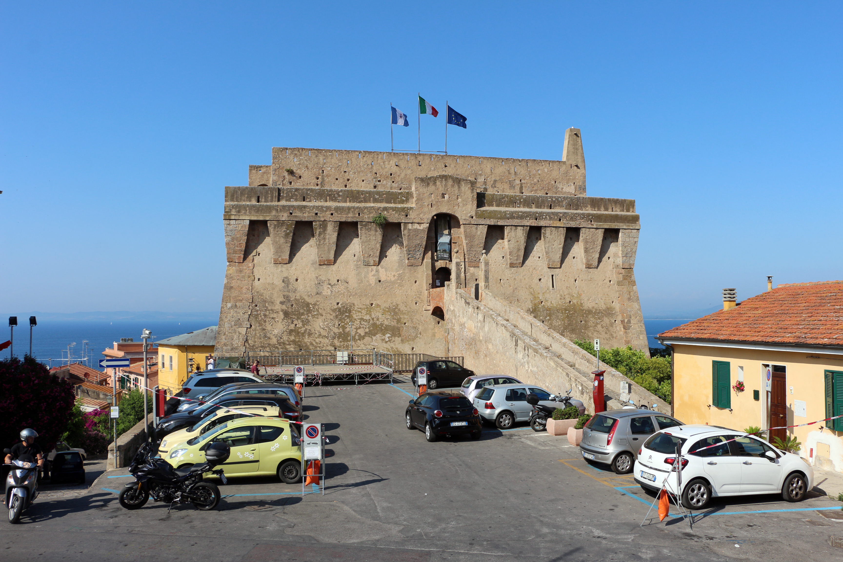 Porto Santo Stefano